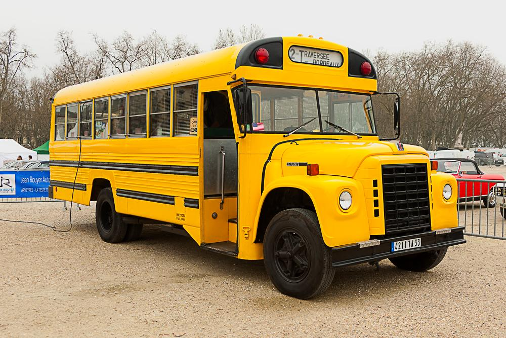 A former International Harvester Loadstar school bus with a Superior Coach body in use as a food stand in Bordeaux, France. Flickr: La 12ème Traversée de BORDEAUX 2017